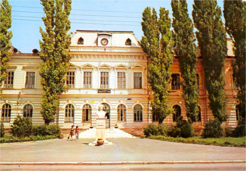 The Gheorghe Rosca Codreanu Lyceum in Barlad (1935)